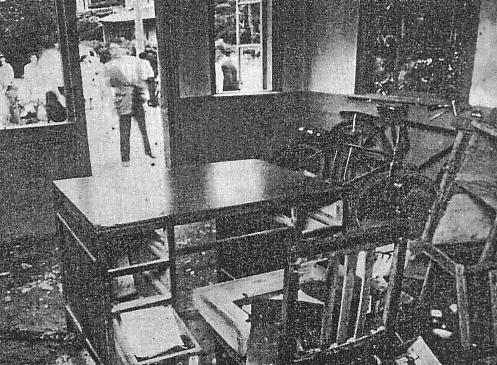 Takada Incident